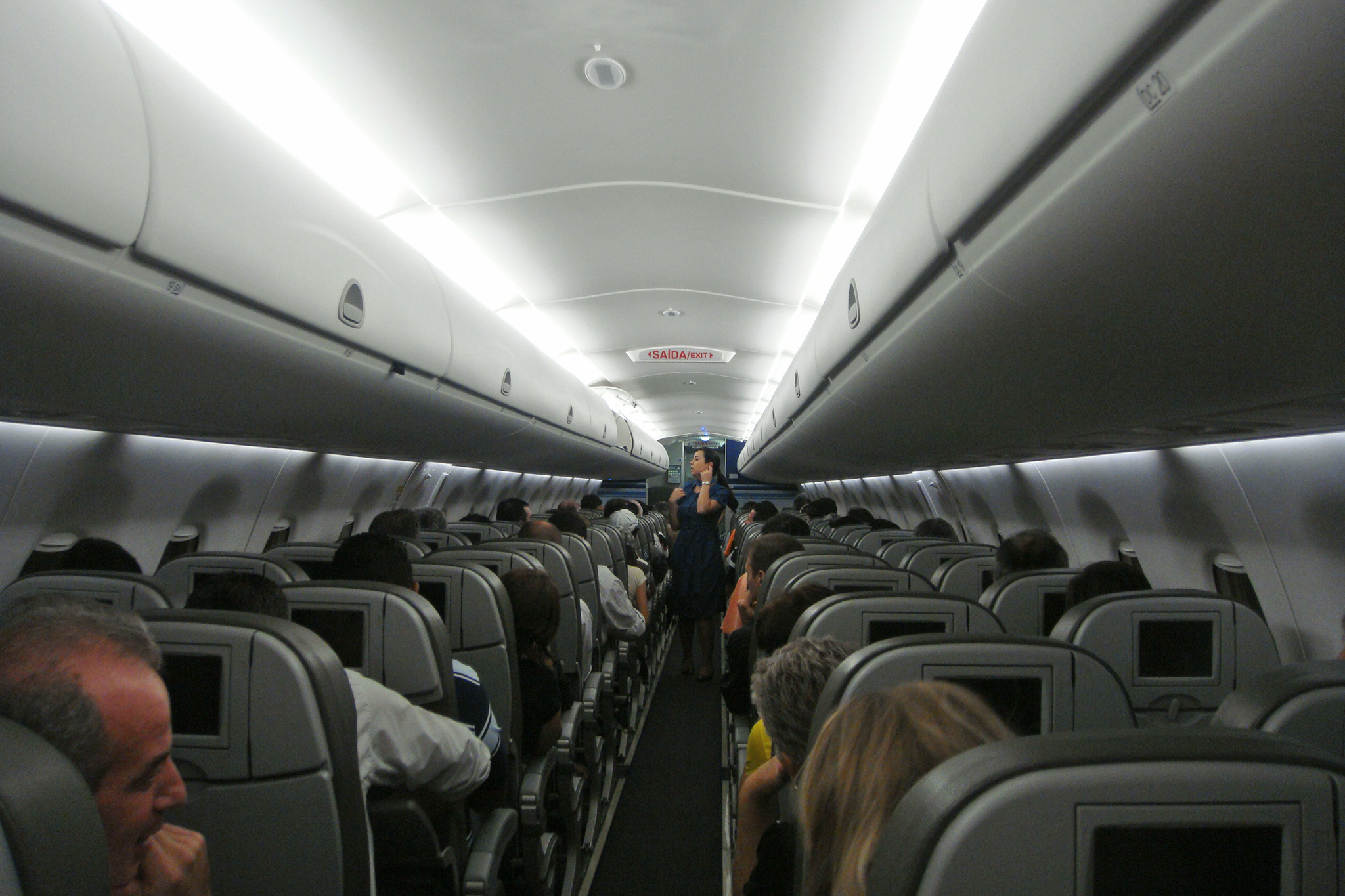 Interior cabin Azul's Embraer 190 (actual flight MGF-VCP), Brazil